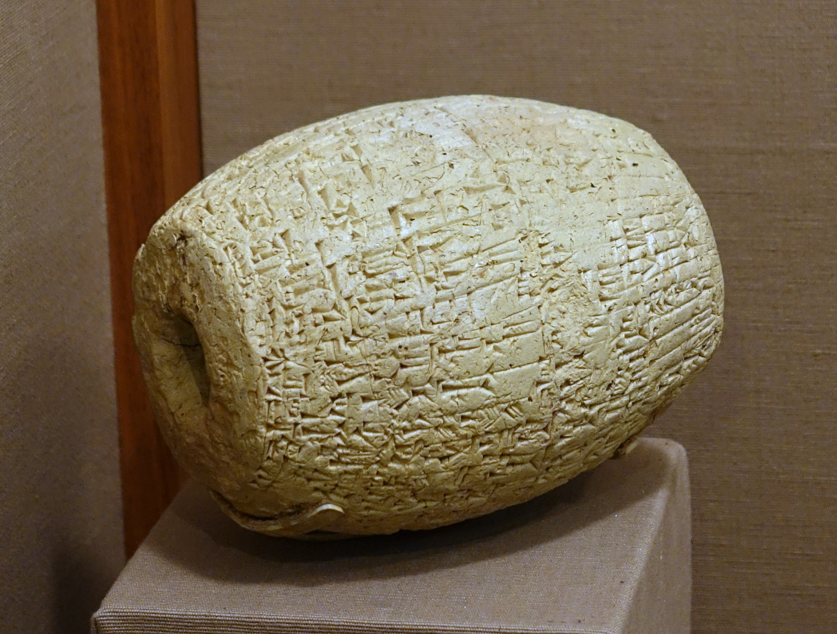 Exhibit in the Oriental Institute Museum, University of Chicago, Chicago, Illinois, USA. This work is old enough so that it is in the public domain.